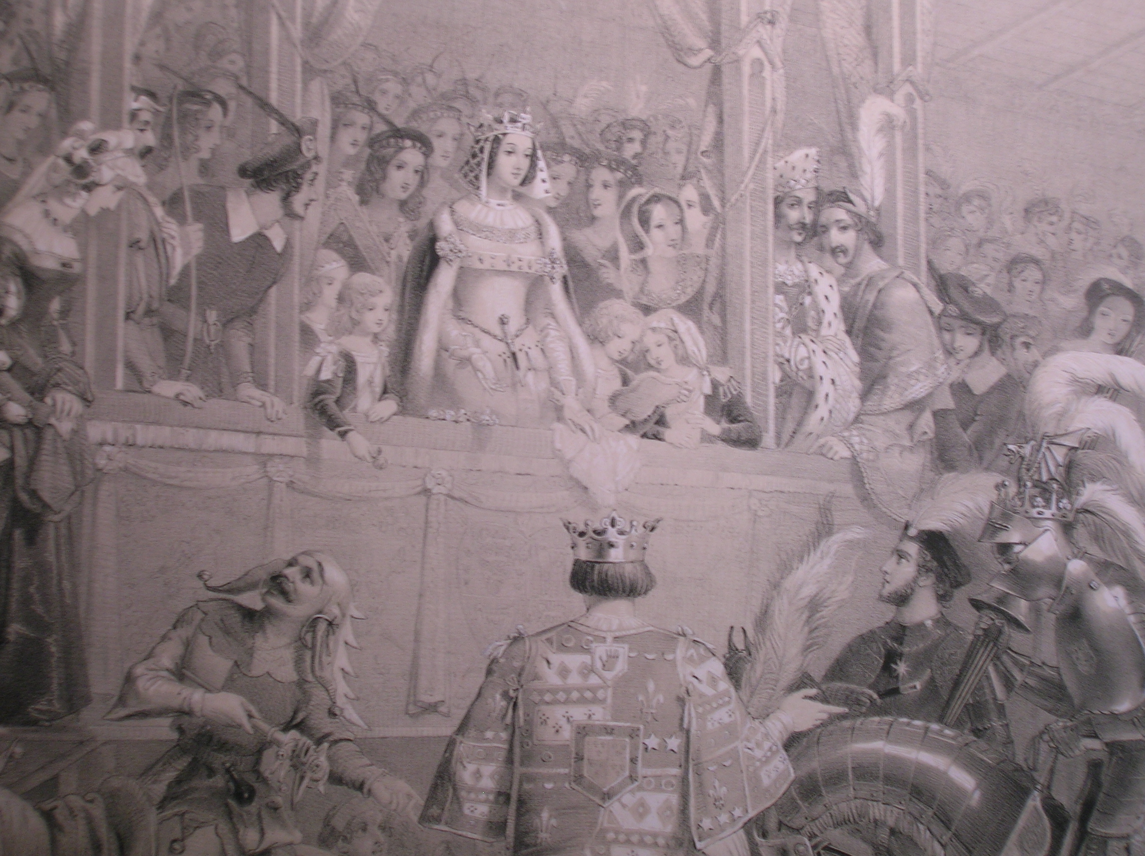 The Lord of the Tournament presents to the Queen of Beauty as victor